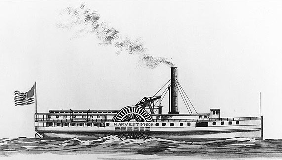 Side-wheel paddle steamer Harvest Moon, built 1863 Watercolor by Erik Heyl, 1953, for use in his book "Early American Steamers", Volume III. This ship was comissioned as USS Harvest Moon in 1864 and was sunk in 1865.